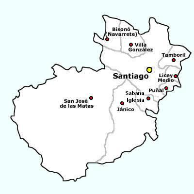 Municipalities of Santiago Province (Dominican Republic).